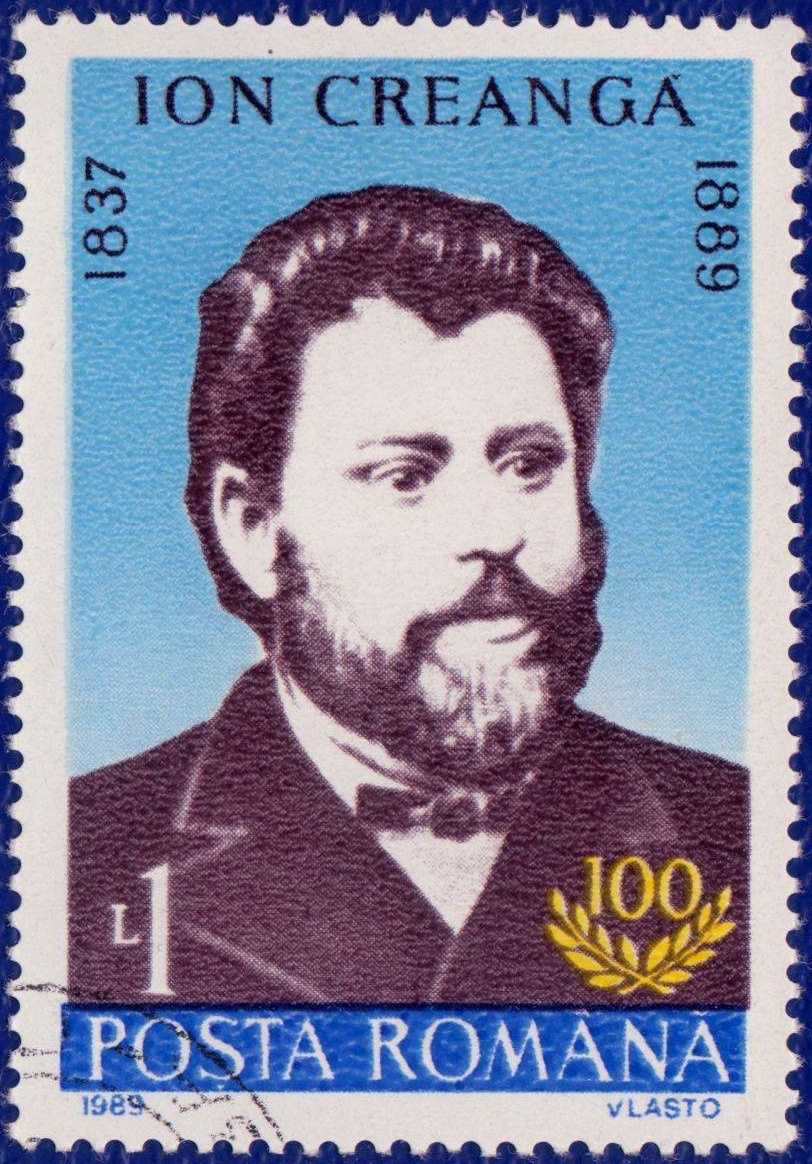 1989 Romanian Post, 1 leu, multicoloured, representing Ion Creangă; Series:Anniversaries of culture; Design: Vlasto